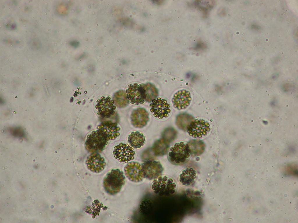 Eudorina sp. Date;2006,06;Susami town, Wakayama prefecture, Japan Author;Keisotyo